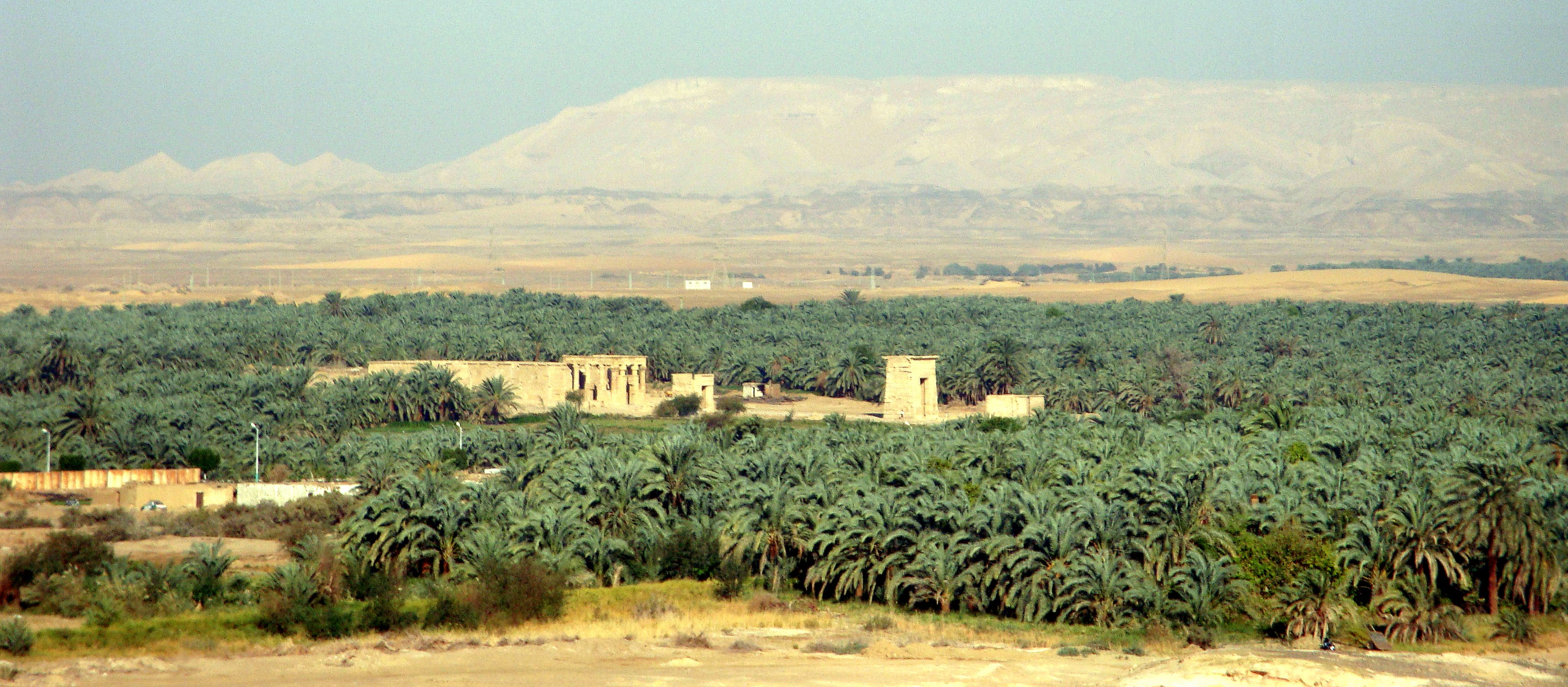 Kharga Oasis in the Libyan desert is the largest oasis known to exist in Western Egypt. It is located about 200 kilometres west of the Nile Valley. Kharga Oasis is also well known for featuring the well preserved Temple of Hibis--which was first built by pharaoh Psamtik II of the 26th Saite dynasty and subsequently decorated by the Persian king Darius I--as well as the 3rd to 7th century AD Christian cemetary of El-Bagawat. El-Bagawat is one of the earliest known Christian cemetaries in the world.